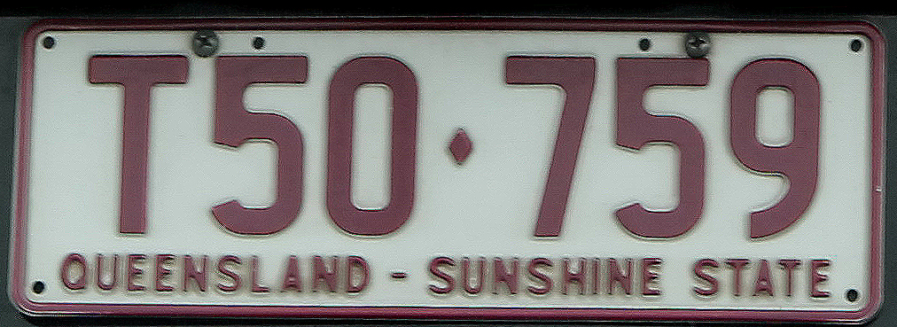 Queensland taxicab plate registered to a Toyota Prius.